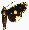 PLATE CXLIV.